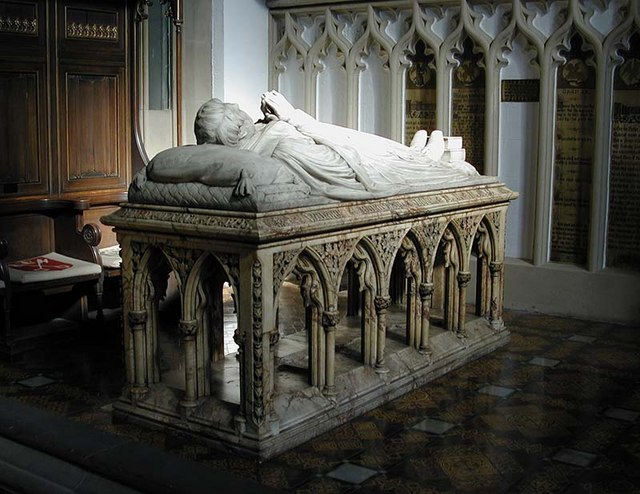 St Peter, Leeds Parish Church - Tomb chest